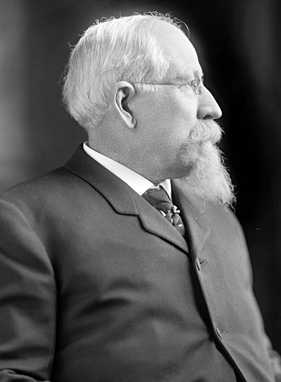 James P. Latta (1844–1911), a U.S. Representative from Nebraska